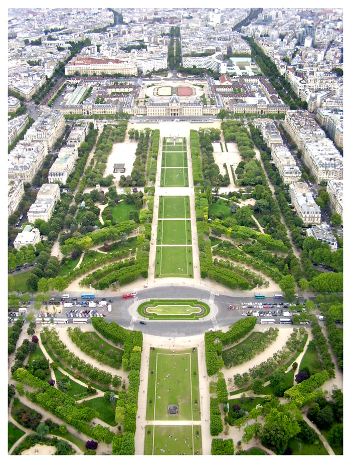 Photography by Danny Selvåg